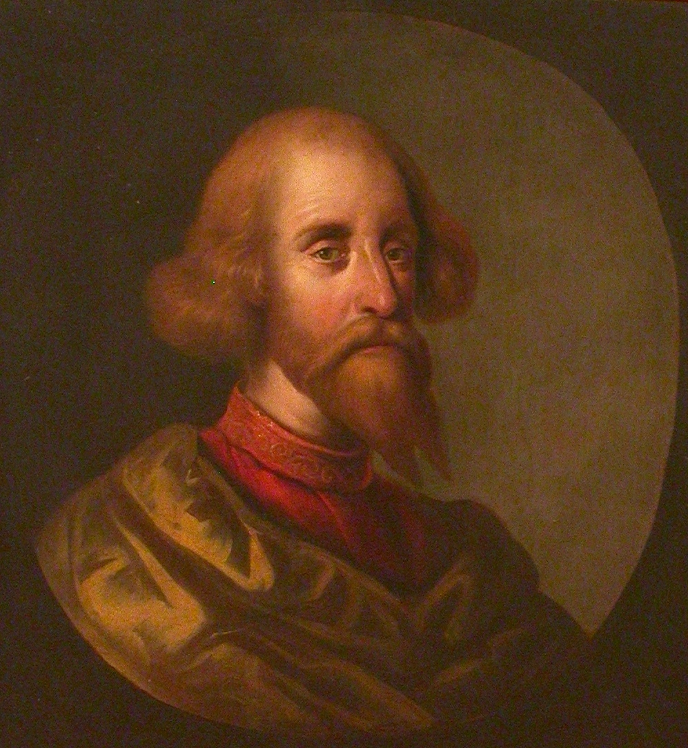 Painting of Culenus, King of Scotland. The painting is inscribed "CVLENVS. 966". The king is number 79 of de Wet's series of paintings. This image is a cropped version of File:Culenus, King of Scotland, 966.jpg.